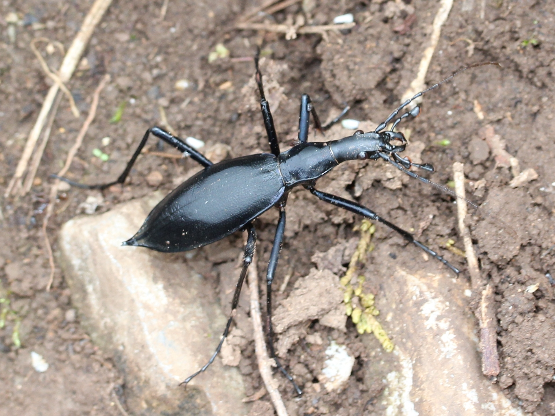 Damaster blaptoides blaptoides in Mount Ibuki, Maibara, Shiga prefecture, Japan.